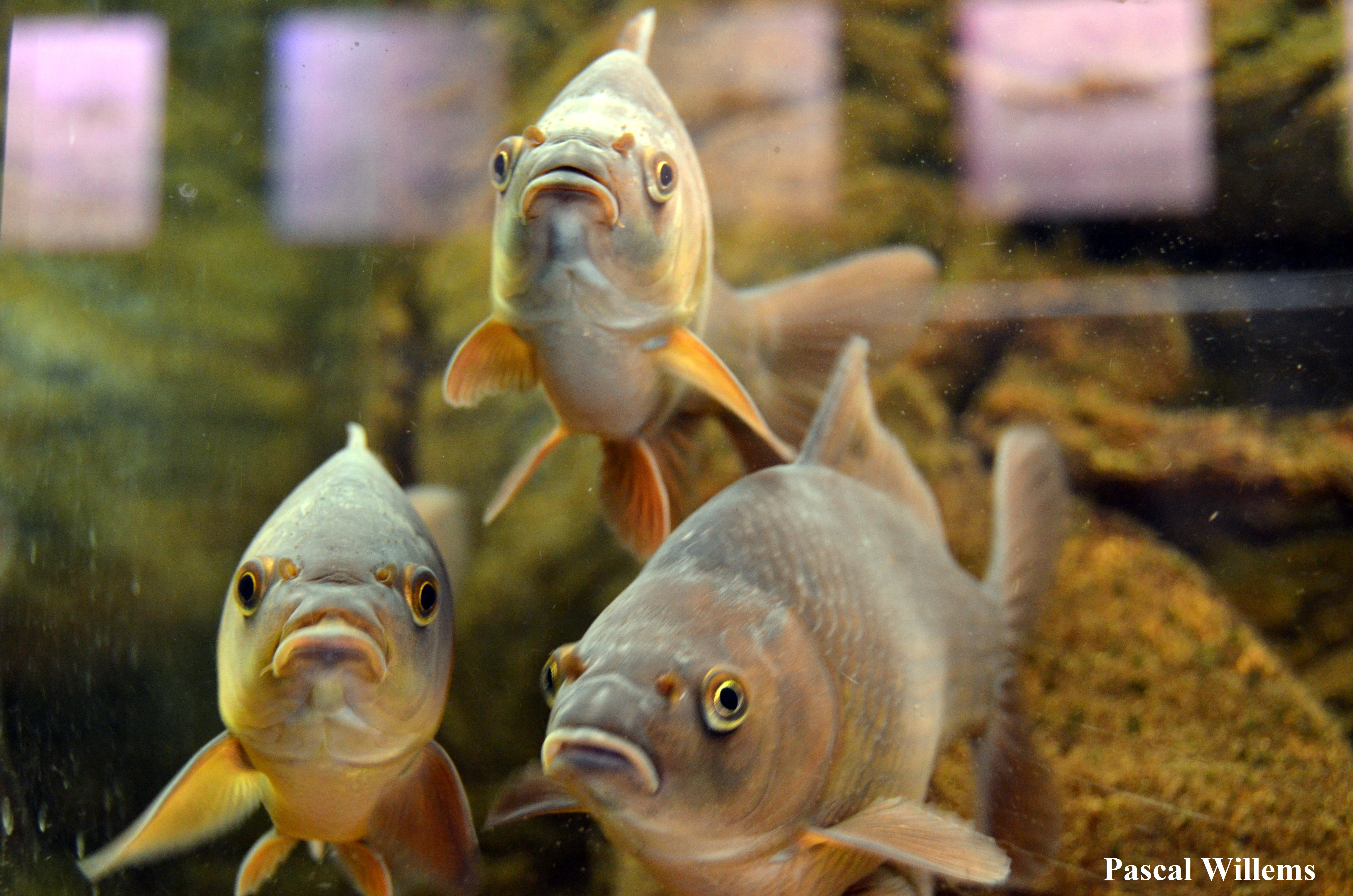 Aquarium Riveo